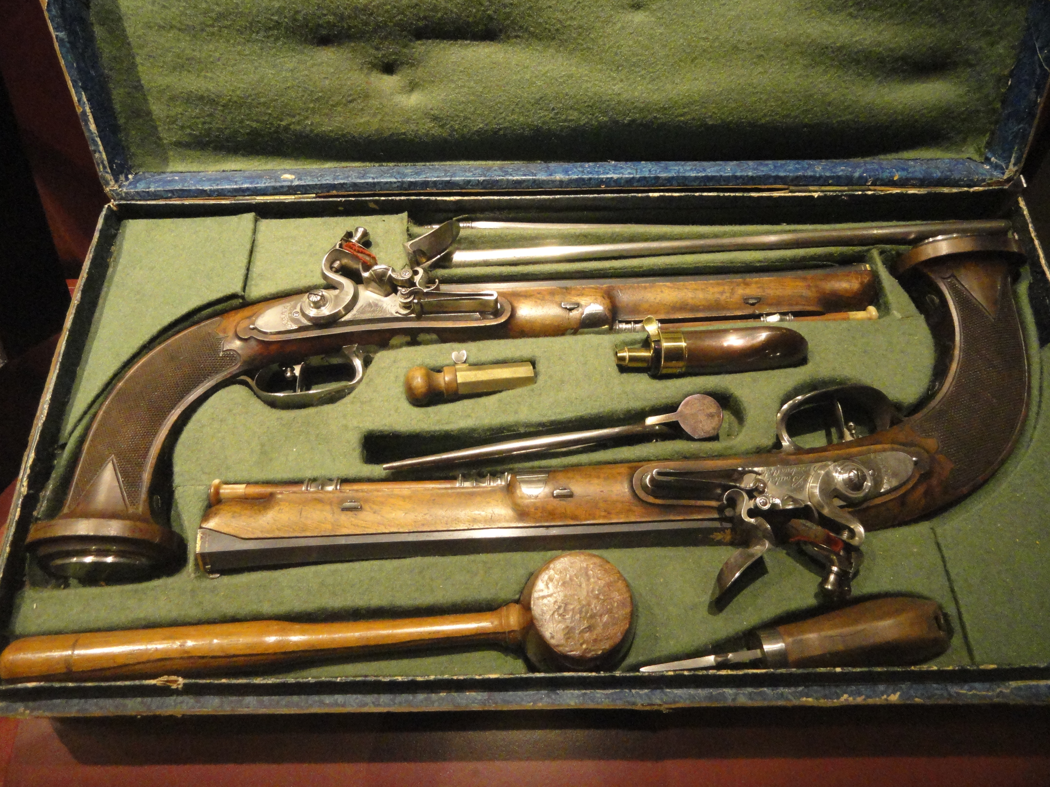 Exhibit in the Royal Ontario Museum, Toronto, Ontario, Canada. This exhibit is old enough so that it is in the public domain, and photography was permitted in the museum. I took this photograph and release it into the public domain.